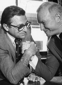 Penn State Coach Joe Paterno and Temple Coach Wayne Hardin